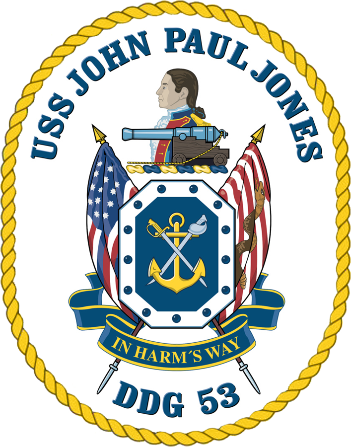 Emblem of the USS John Paul Jones DDG-53